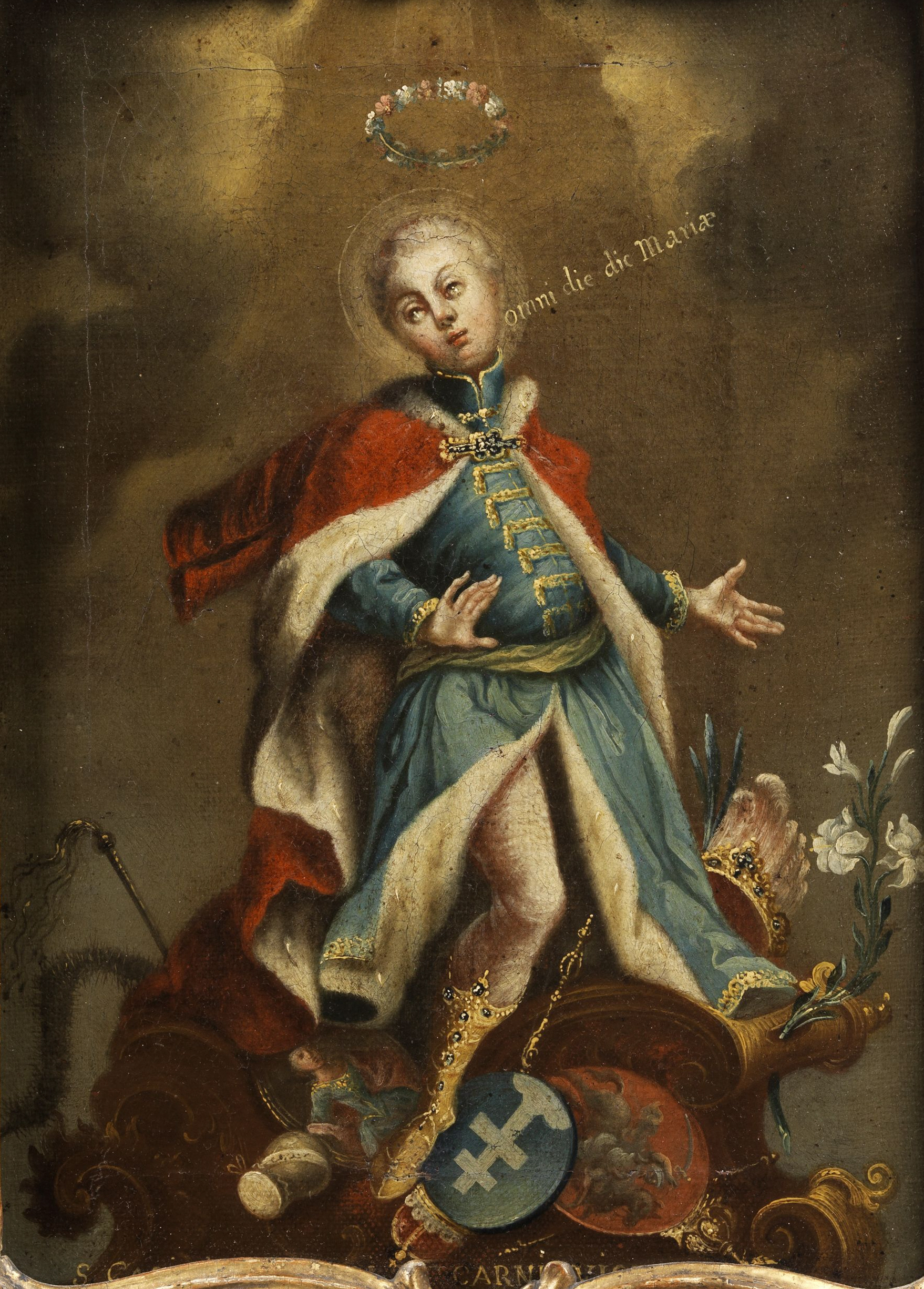 Apotheose des hl. Kasimir. Öl auf Leinwand. Doubliert. 33 x 24,5 cm. Am unteren Rand: "S. Casimirus mundi et carnis victor".